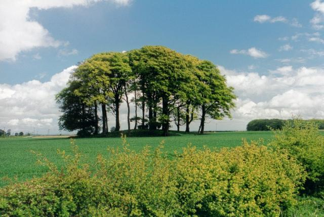 Garrowby Hill Tumulus, south of Kirby Underdale, East Riding of Yorkshire, England.This one is right next to A166 at SE822 570 in the East Riding of Yorkshire.